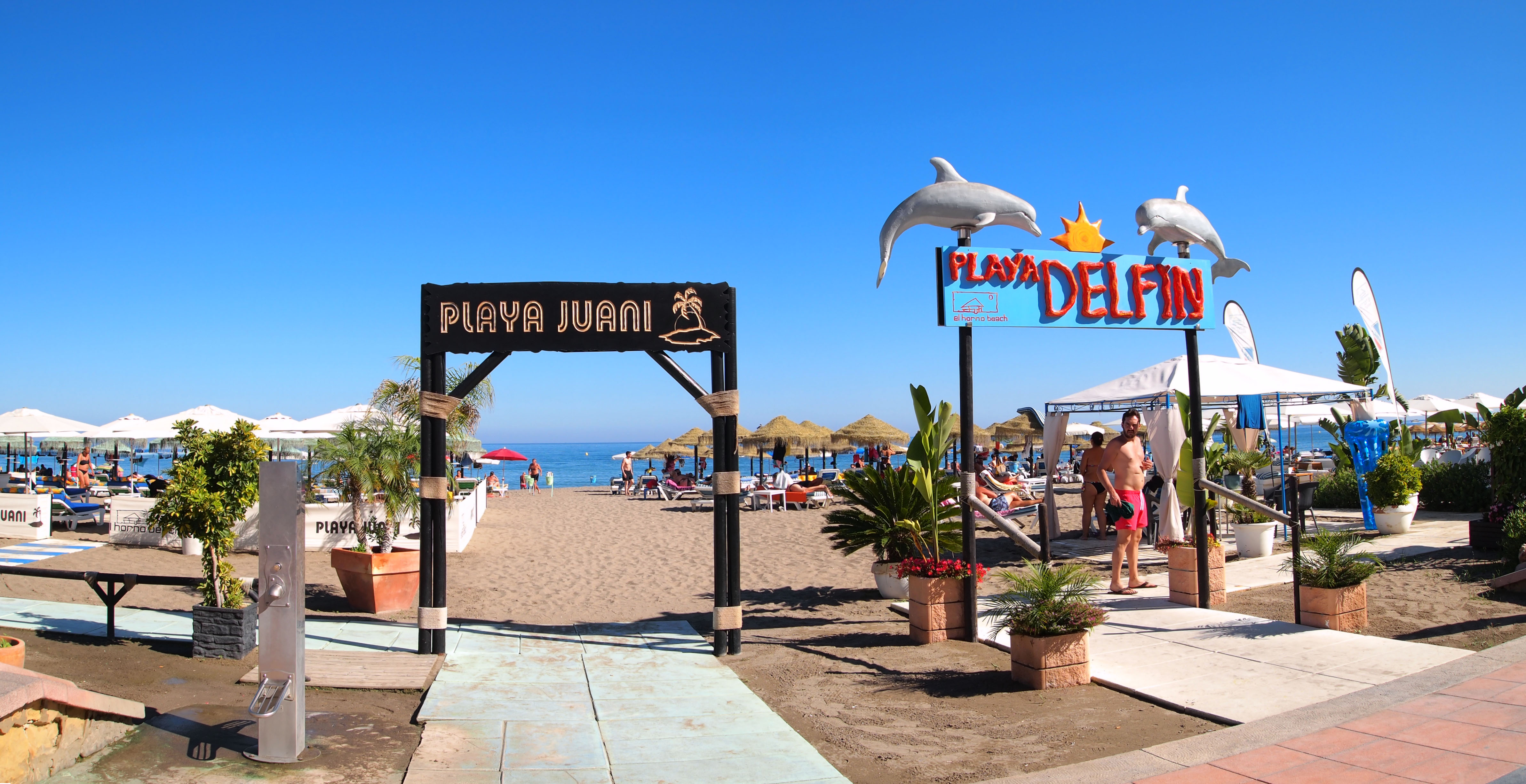 A beach in Torremolinos.